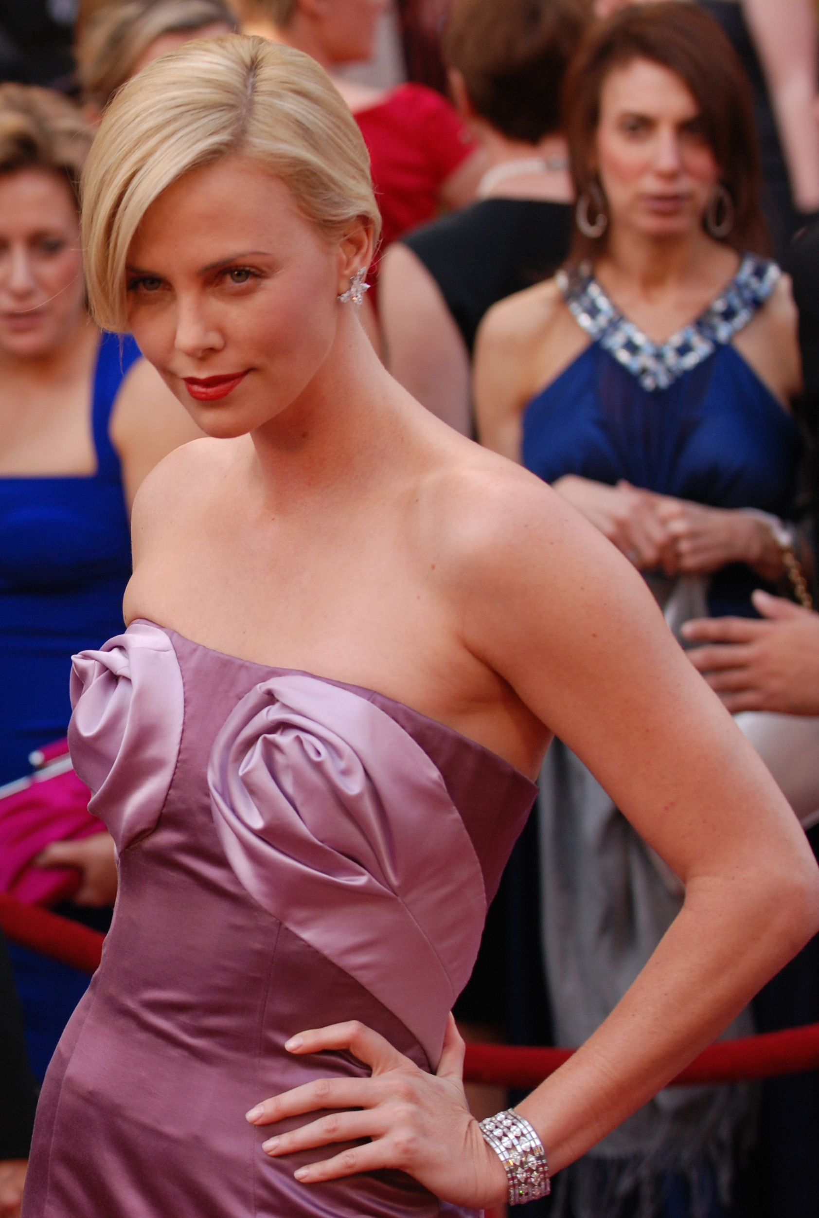 Charlize Theron strikes a red-carpet pose at the 82nd Academy Awards, March 7, in Hollywood, Calif.